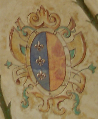 Kierdeja coat of arms in Baranow-Sandomierski castle. Detail of Image:Baranów Sandomierski - castle 11.JPG full resolution, by User:Piotrus and tagged with the same “self2.GFDL.cc-by-sa-2.5,2.0,1.0” license.